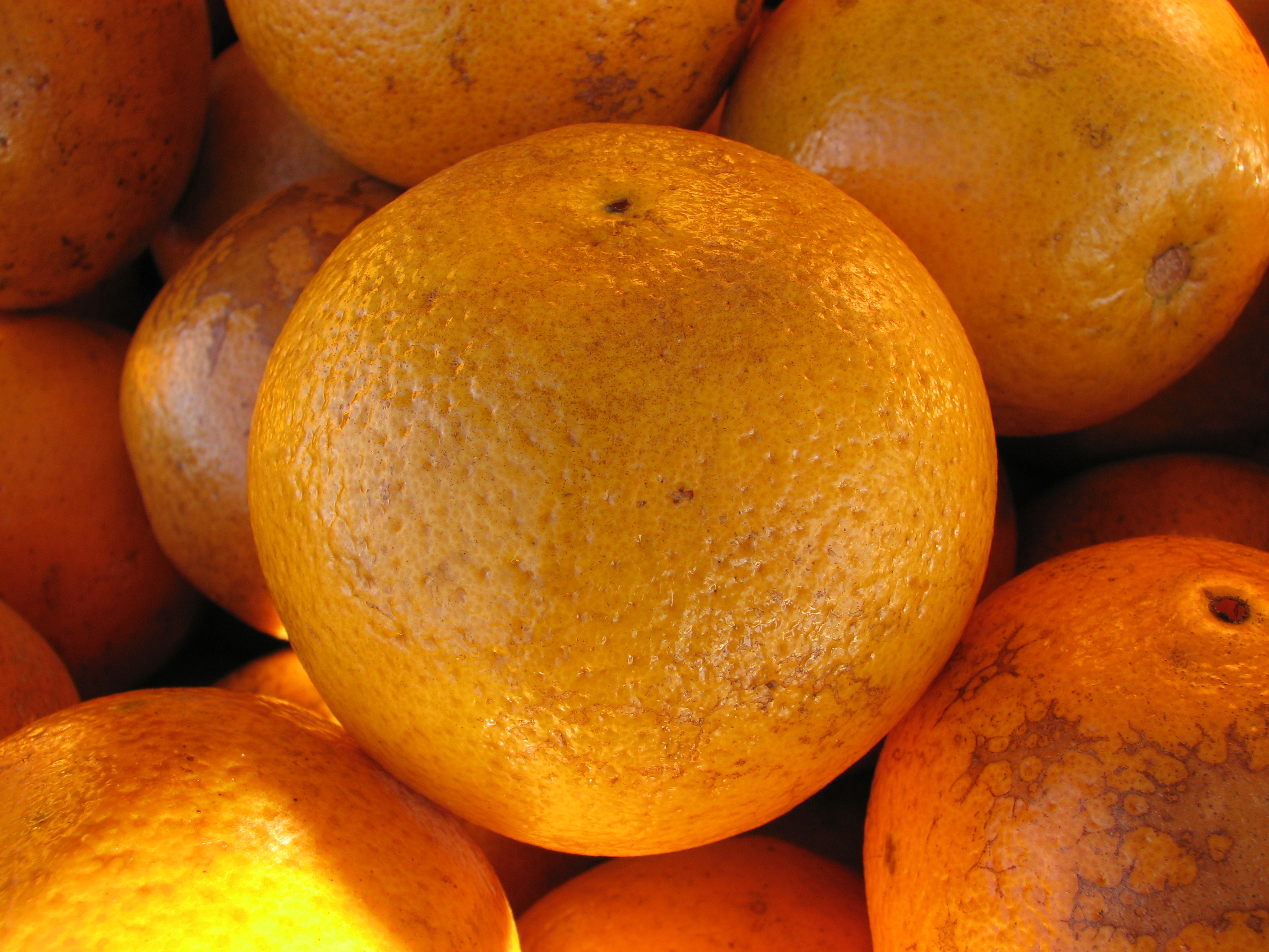 A Florida navel orange.